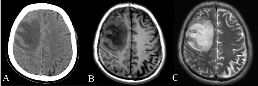 A: CT scan of the brain showing hypodensity of the right frontal lobe of the brain B: T1-weighted MRI scan of the same brain showing hypointensity of the lesion C: T2-weighted MRI scan of the same brain showing hyperintensity of the lesion